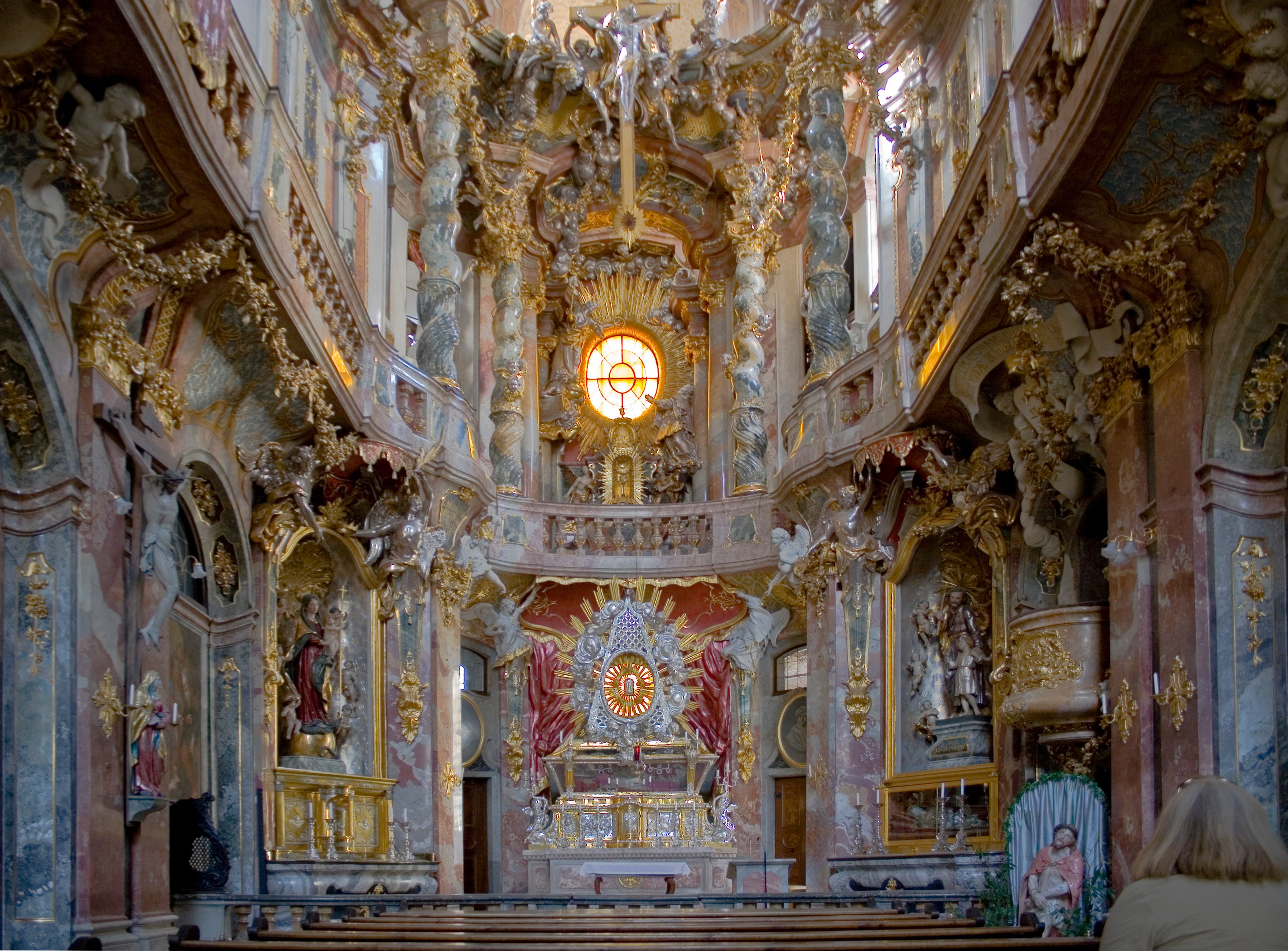 Asamkirche, Munich, Germany